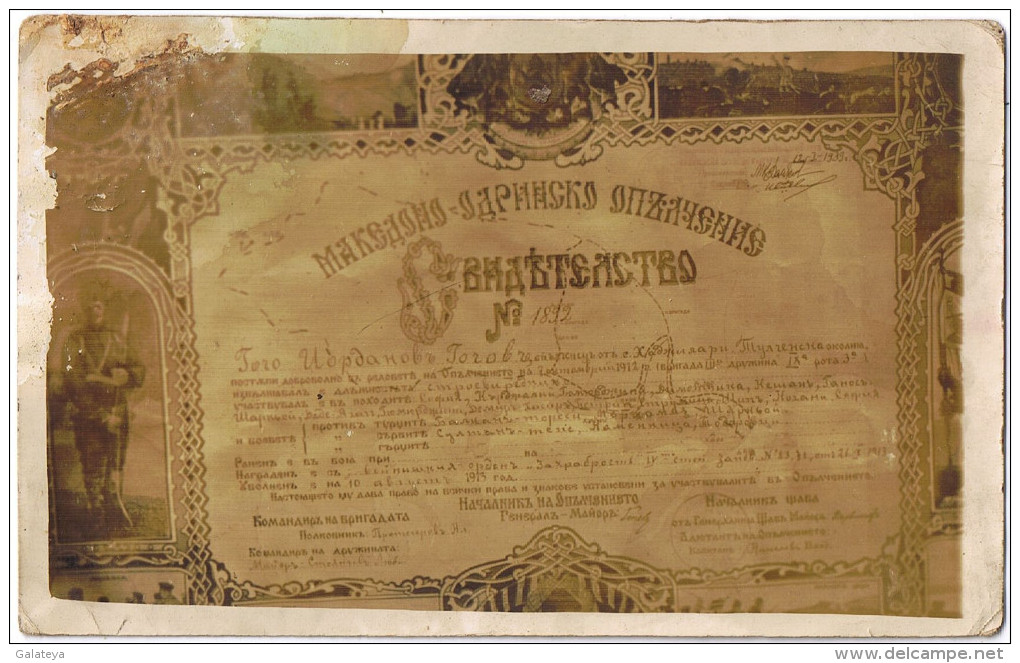 Certificate for service in the Macedonian-Adrianopolitan Volunteer Corps of Iliya Dilberov from Hadzhilari, Tulcea (today Lăstuni, Romania).